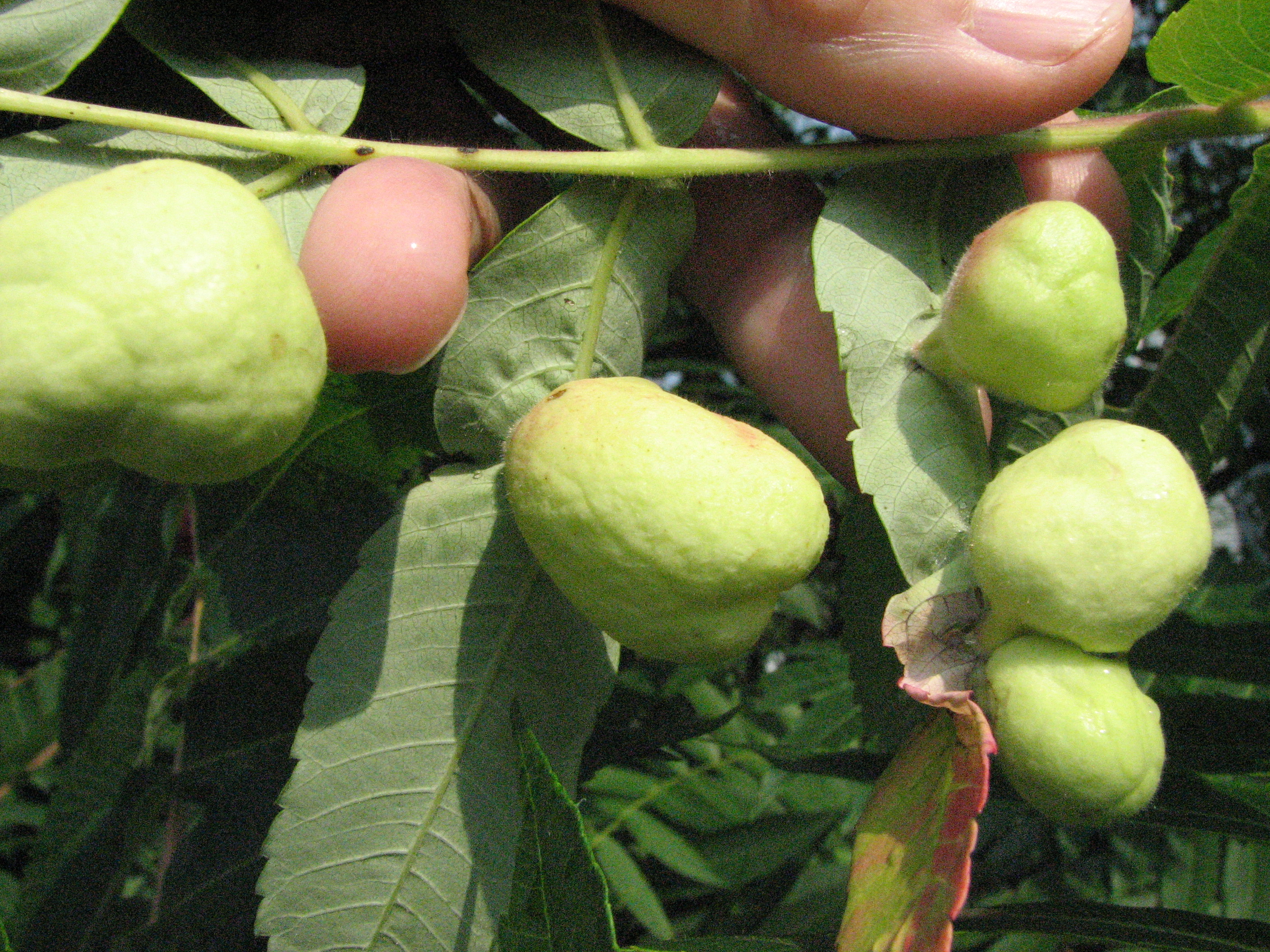 Melaphis rhois (sumac gall aphid) galls. Horsham Trail, Horsham, Montgomery County, Pennsylvania, USA.